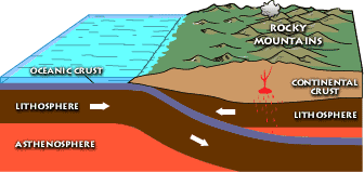 Diagram showing the shallow subduction of a tectonic plate that formed the Rocky Mountains during the Laramide orogeny